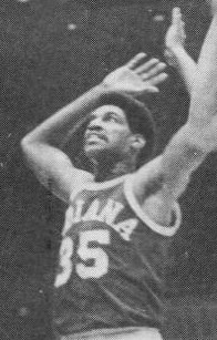 Professional basketball players Doug Moe (left) and Roger Brown (right)